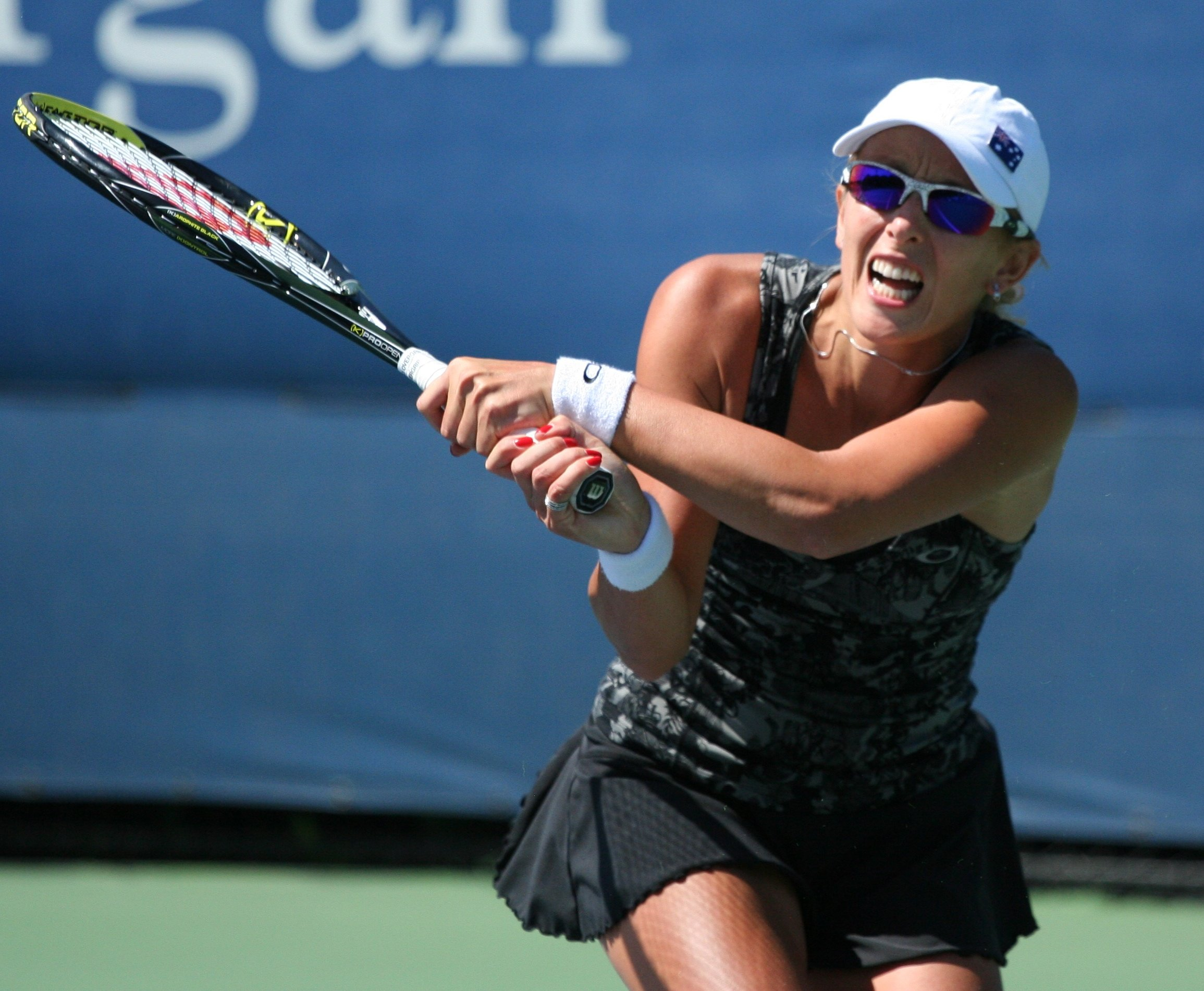 U.S. Open Tuesday, Sept. 1, 2009